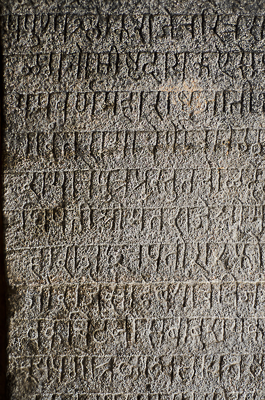 There are Tamil/Sanskrit/Marathi and other language inscriptions found